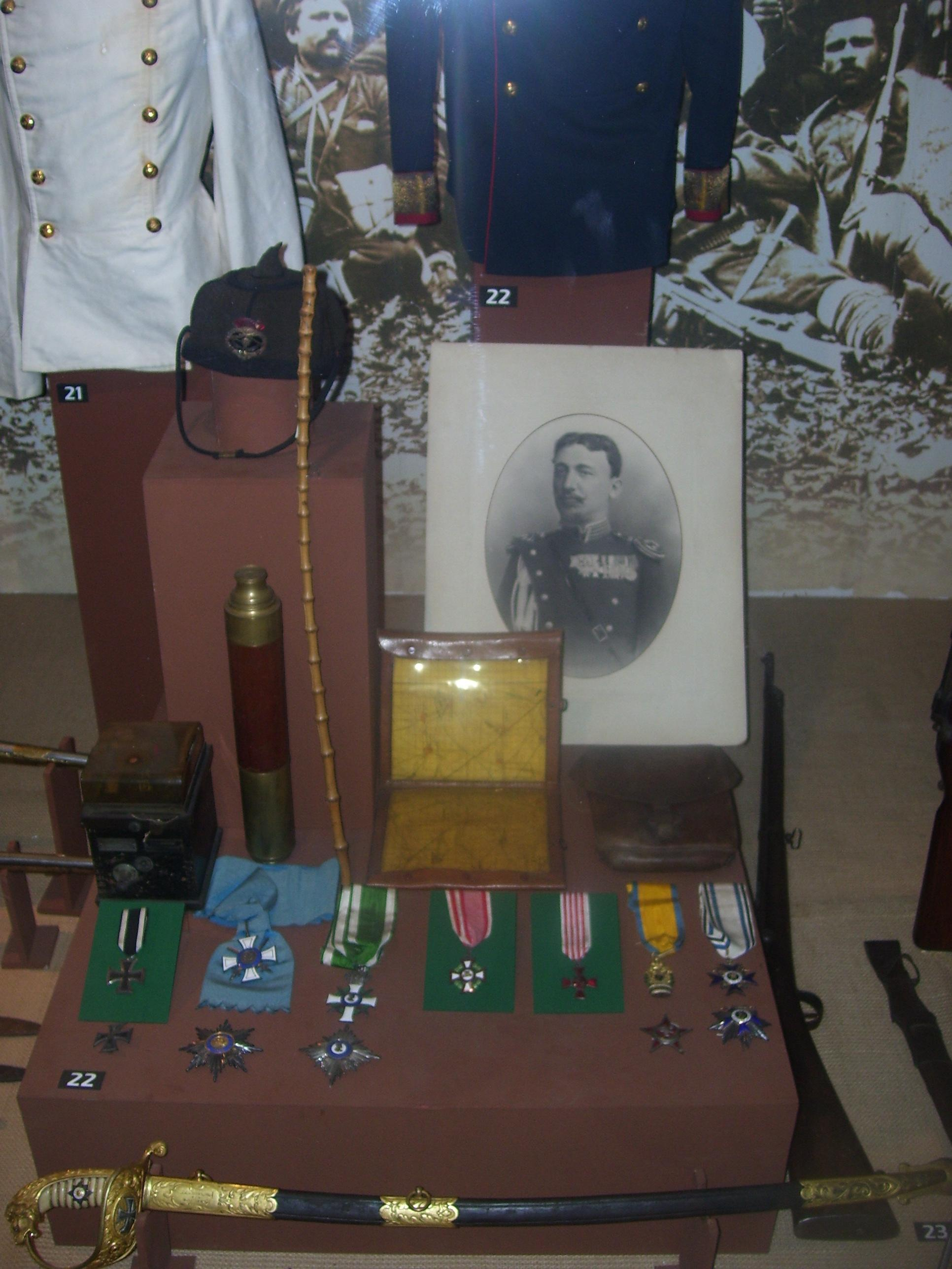 Personal belongings of captain Alexandar Protogerov: 8 mm Lebel carabine M1890, sword, orders, FD37 detonation device Telefunken, telescope, riding-crop, cap, field-plotter, commander's bag, portrait.